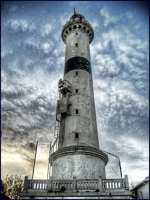 Ahırkapı Lighthouse. Large number of (block-shaped) JPEG artifacts, inappropriate black border (